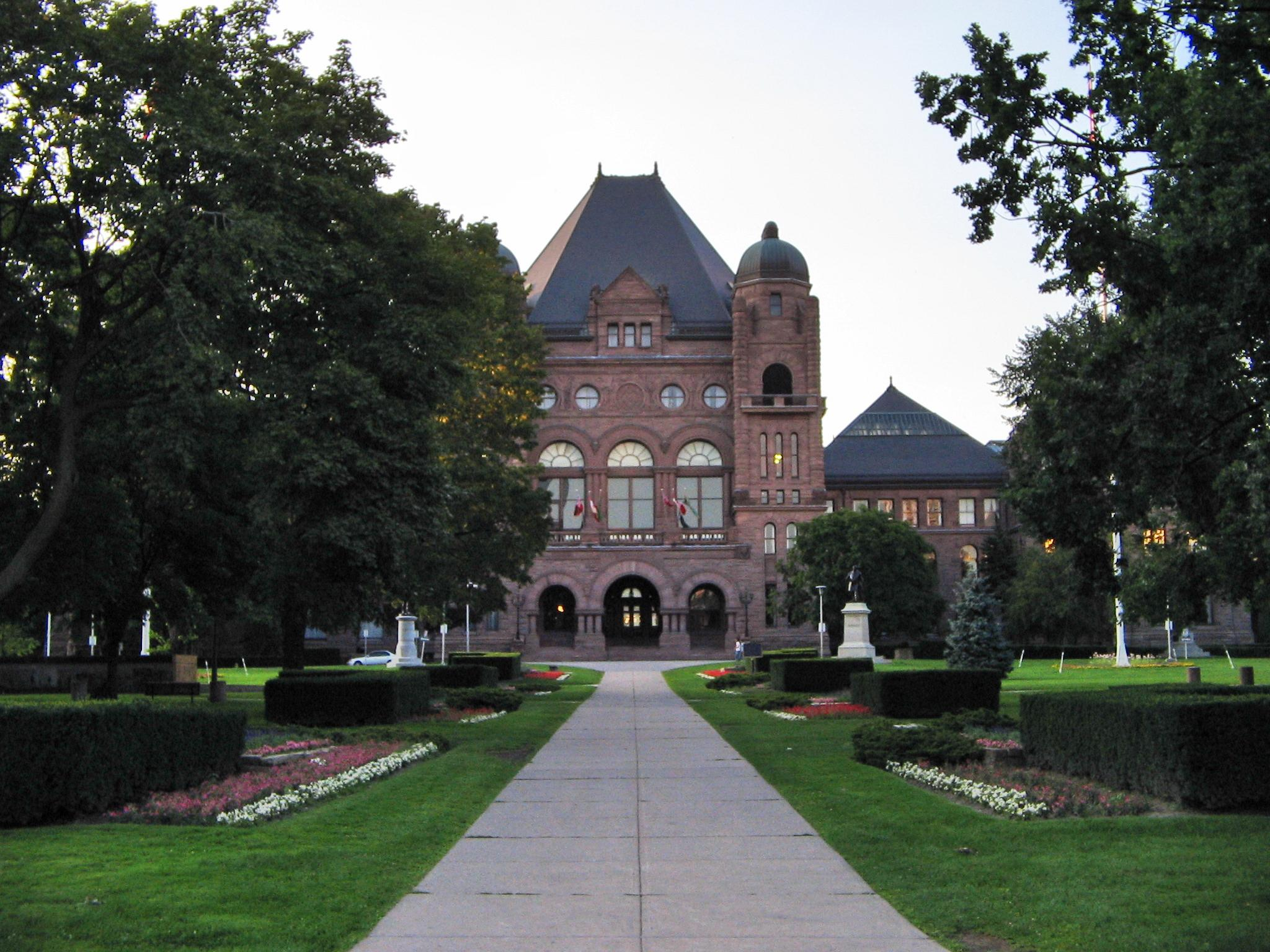 The Ontario Legislative Building in Queen's Park